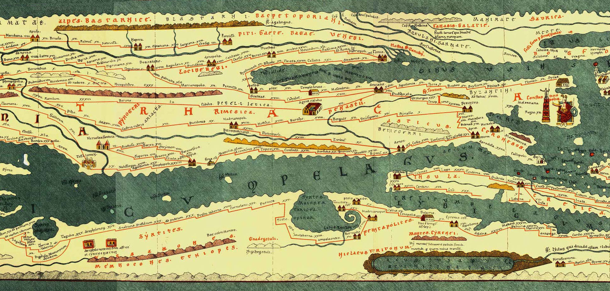 Part of Tabula Peutingeriana showing Eastern Moesia Inferior, Eastern Dacia and Thrace, 1-4th century CE. Facsimile edition by Conradi Millieri, 1887/1888